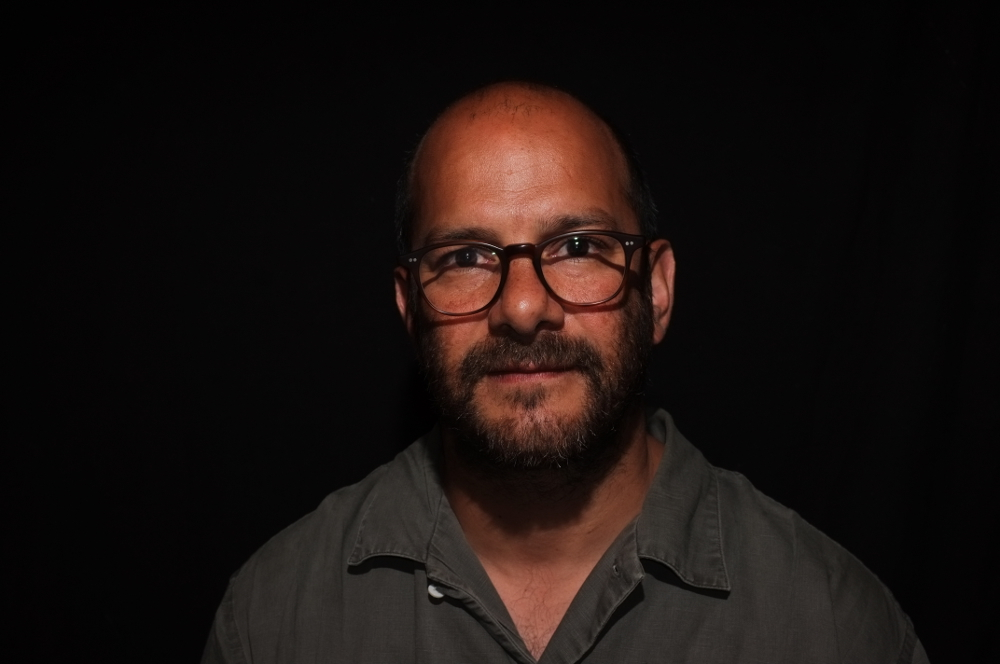 Stephen Gill (Bristol Photobook Festival, 2014)